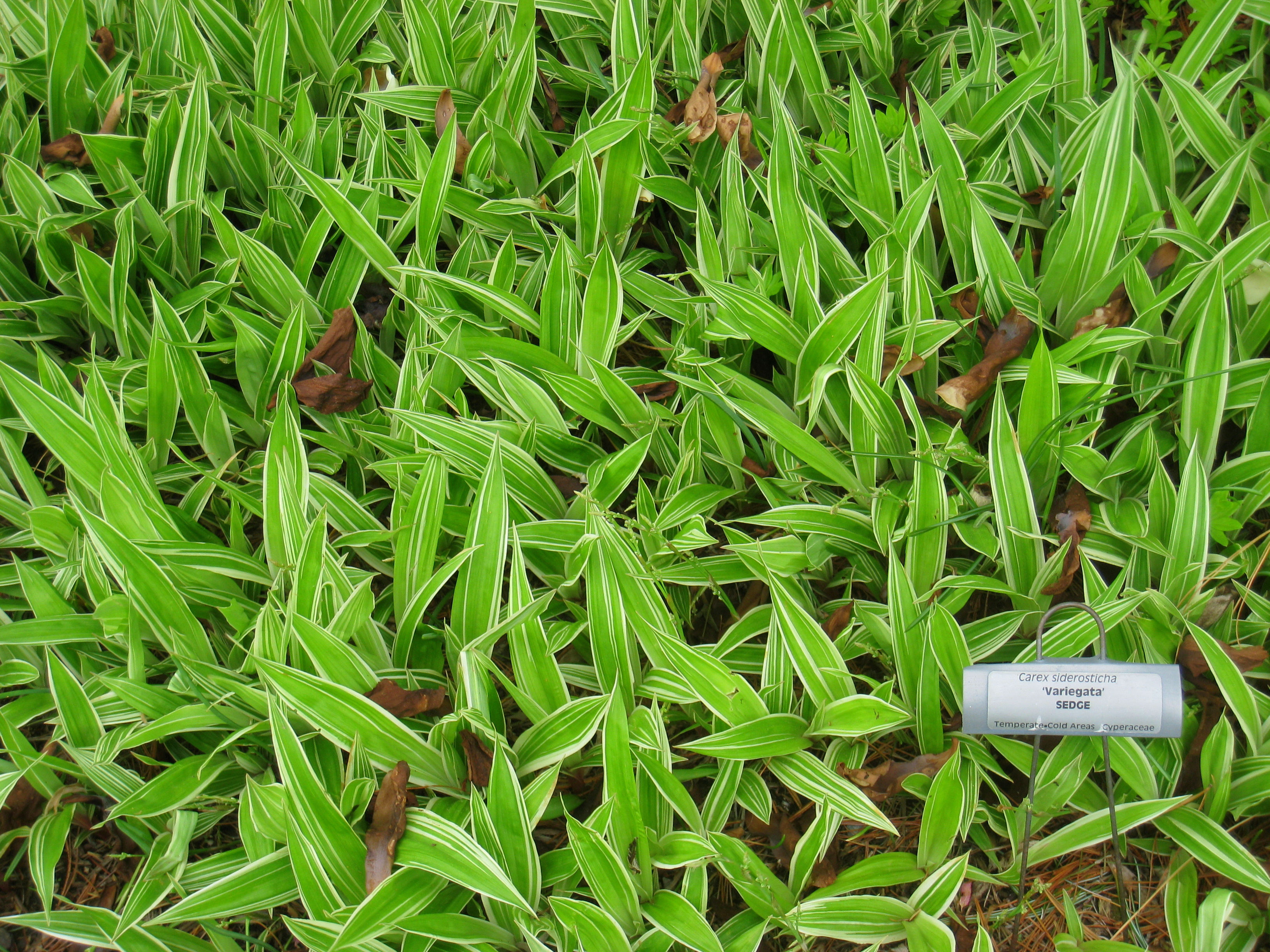 Carex siderosticta, in Tower Hill Botanic Garden, Boylston, Massachusetts, USA.